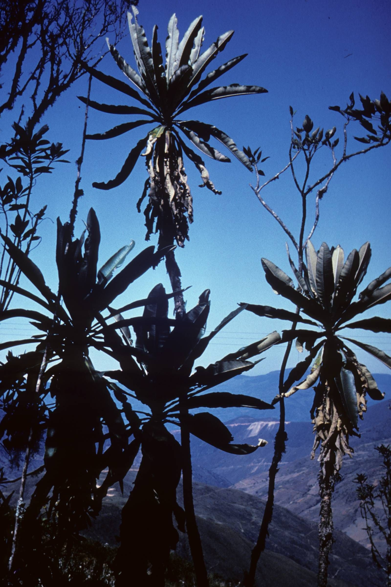 Libanothamnus occultus, Paramo San Jose, Venezuela.